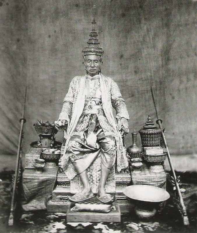 King Mongkut (Rama IV) in full Reglia